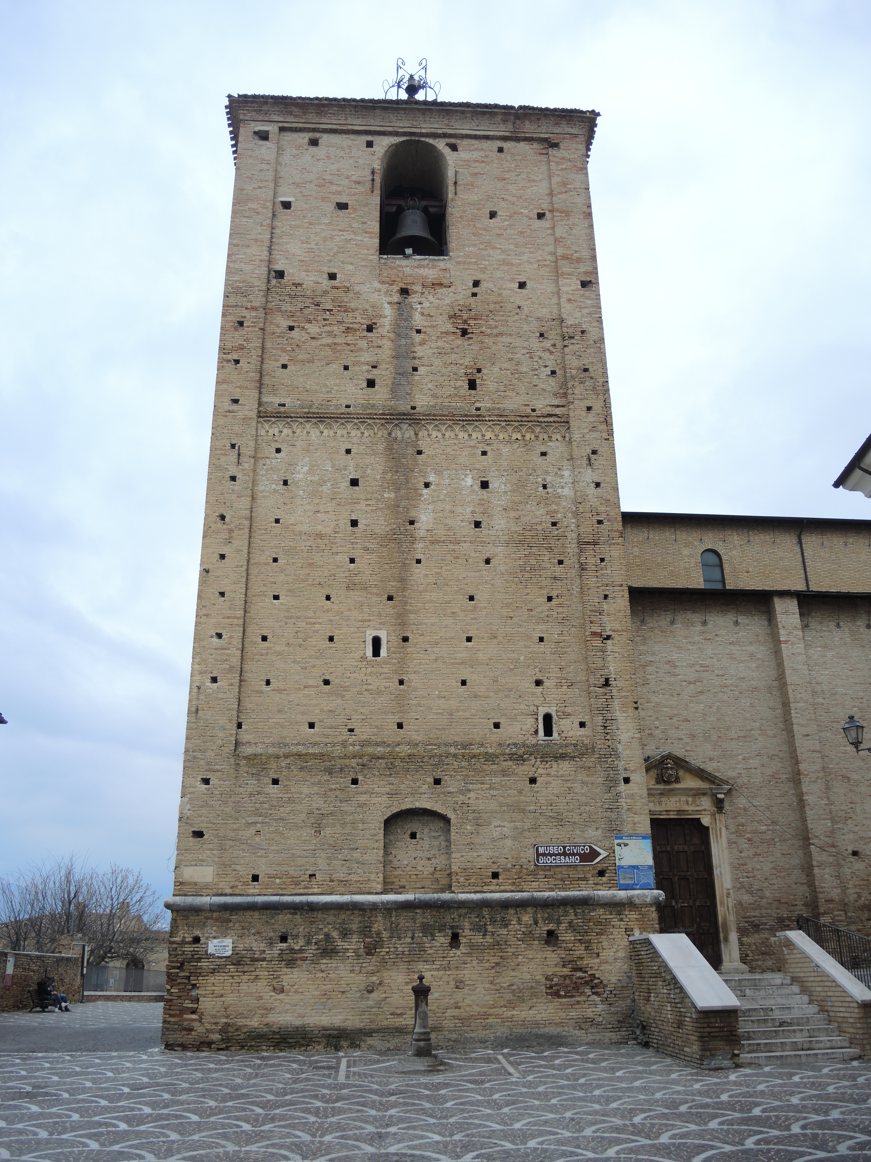 Penne: Duomo di San Massimo